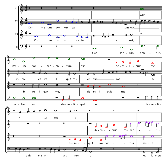 Music example illustrating counterpoint style of Rennaissance composer Josquin des Prez, especially paired motivic imitation. First bars of second part of Psalm motet Domine ne in furore (Ps. 37). Music typeset with Lilypond (source text see discussion page)